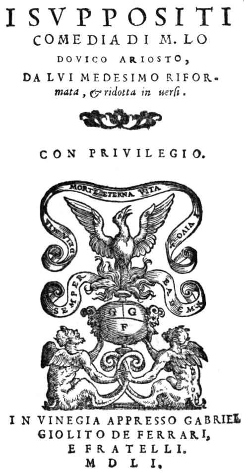 This is the title page of I Suppositi, a play by Ludovico Ariosto published in 1551.